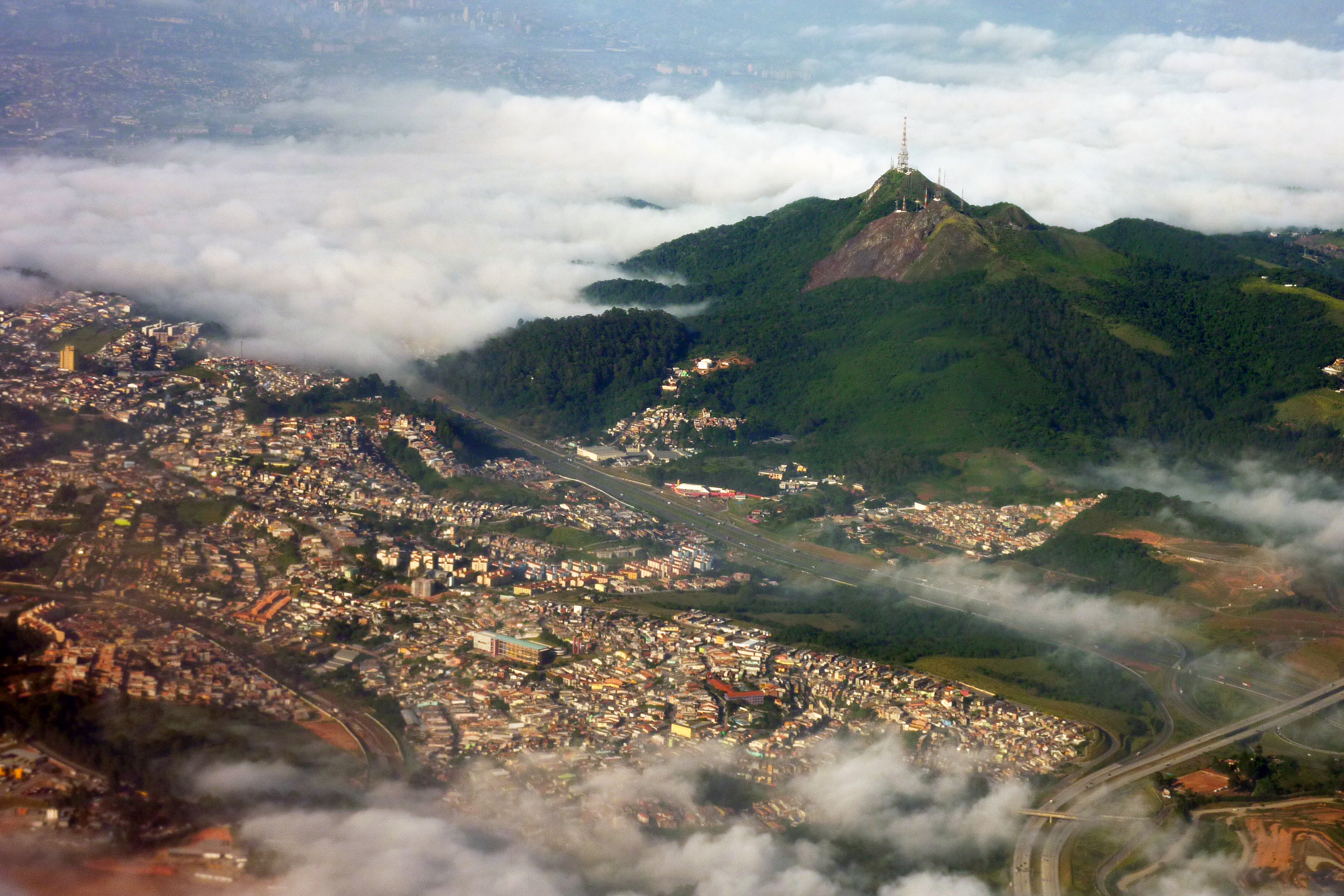 Pico do Jaragua aerial shot Sau Paulo 2010